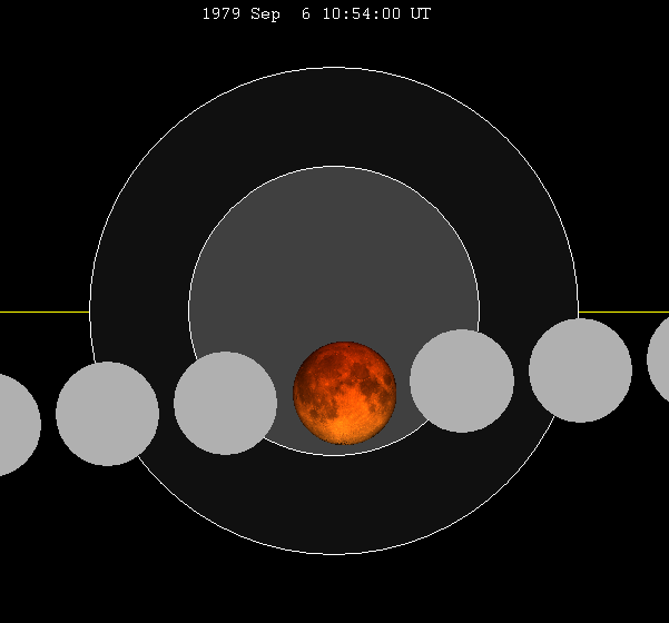 September 1979 lunar eclipse chart of moon's path through the earth's shadow. thumb